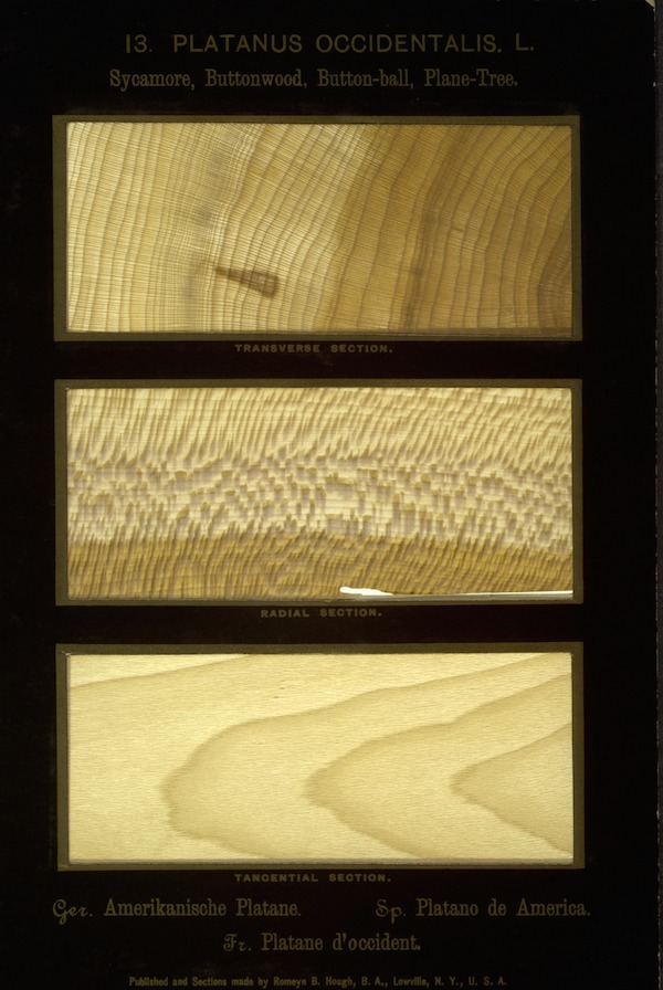 Pletanus occidentalis – Sycamore or Button-wood, wood block